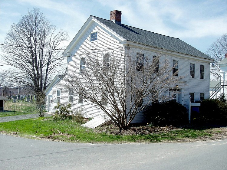 The Oliver Knowles House (1839), part of the Main Street Historic District in Durham, Connecticut.